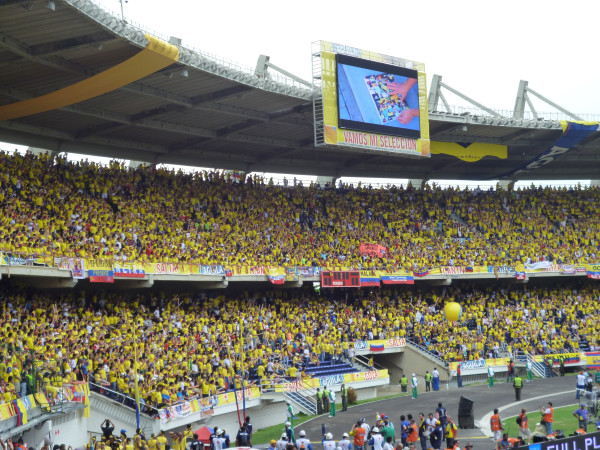 Norte stand